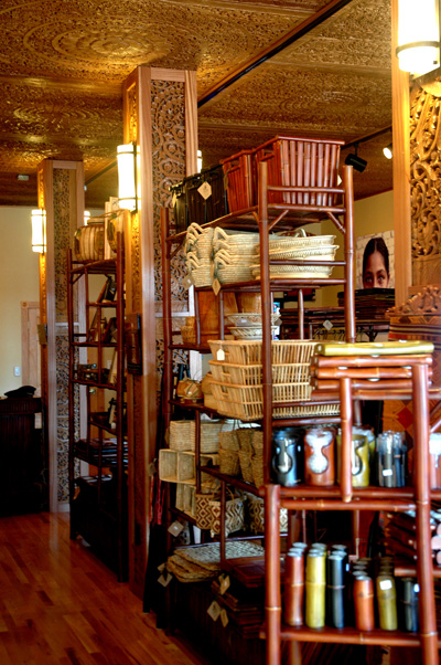 Christian Handcrafts Store